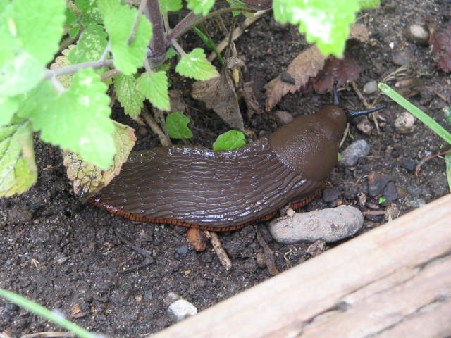 Large brown slug photographed in garden. Either Arion ater or Arion rufus.